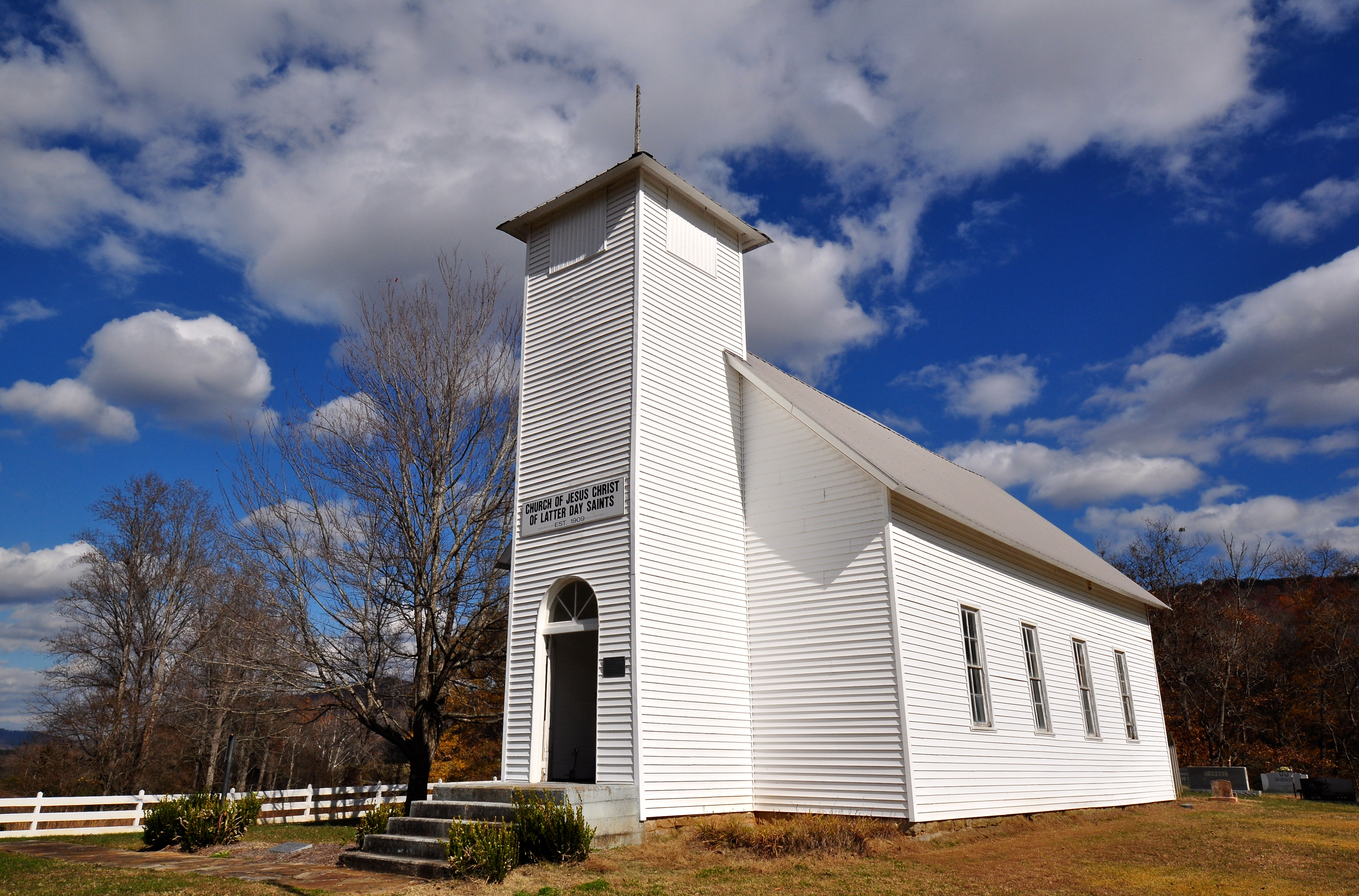 Northcutts Cove Chapel, Southeast of Altamont Altamont